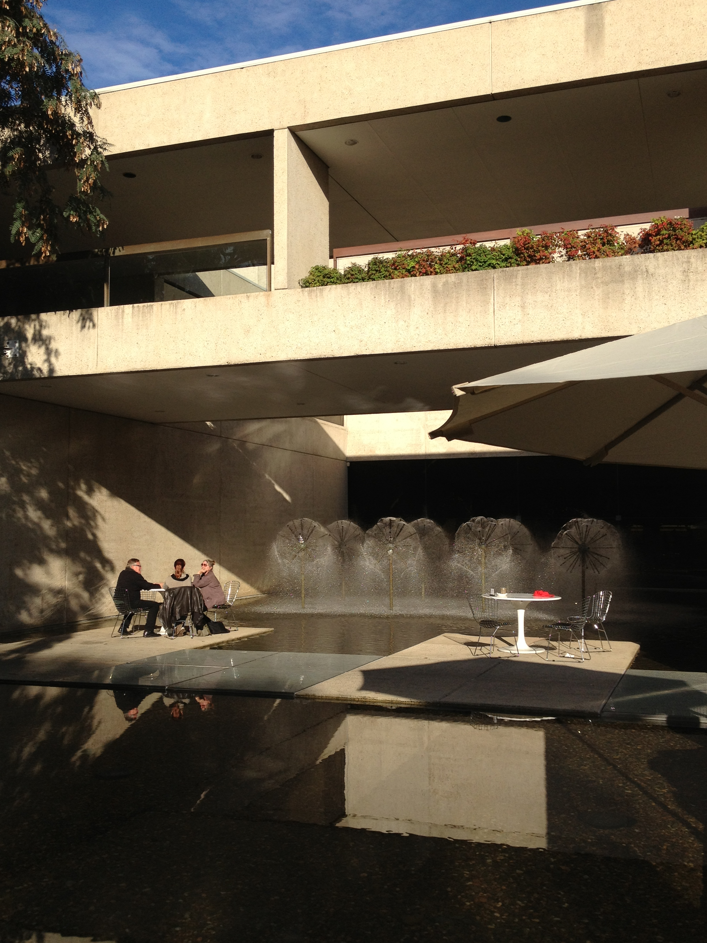 Café at the Queensland Art Gallery, 07.2013